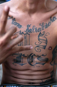 Image depicting member of MS13 gang. Work of the Federal Bureau of Investigation (FBI).